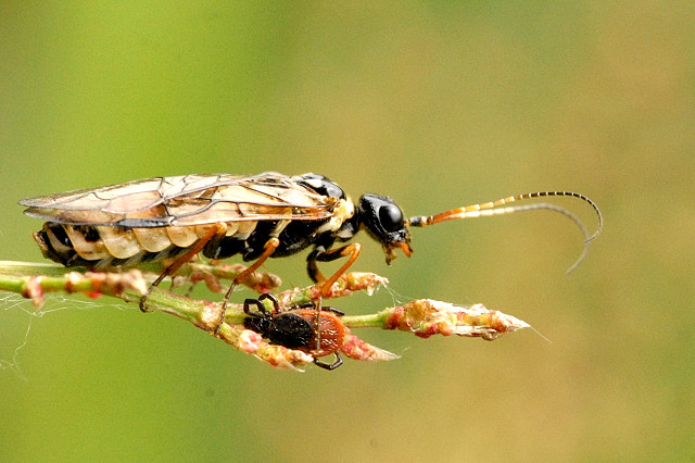 Cephalcia arvensis from Commanster, Belgian High Ardennes .